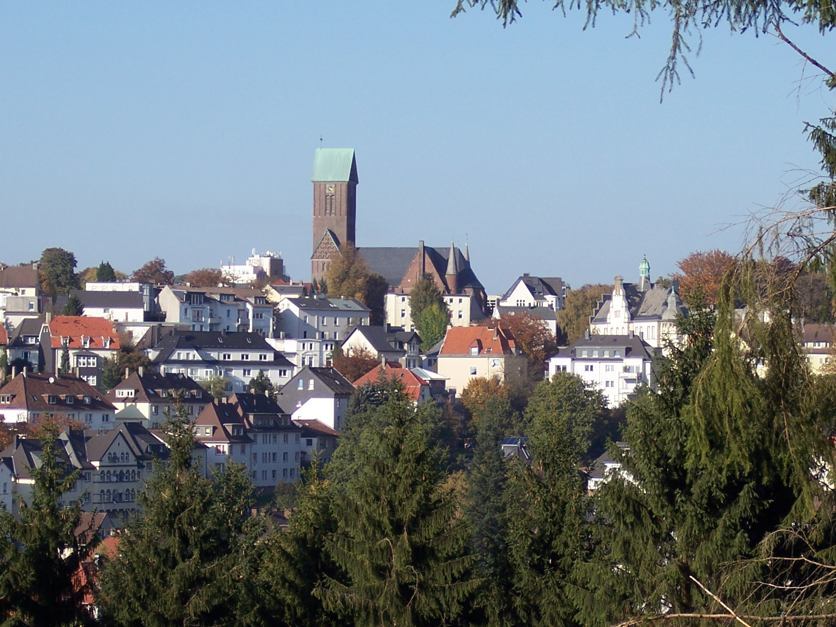 Luedenscheid, City Centre with katholic church „St. Joseph und Medardus“ and old courtyard